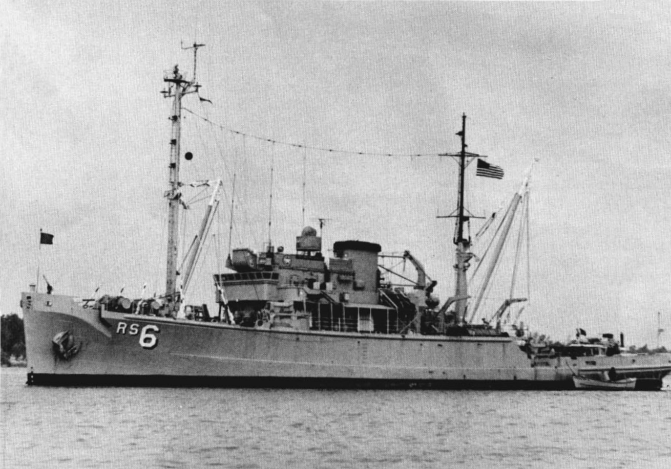 The U.S. Navy rescue and salvage ship USS Escape (ARS-6) at anchor on Lake Timsah, Egypt, during minesweeping operations in the Suez Canal, in 1974.